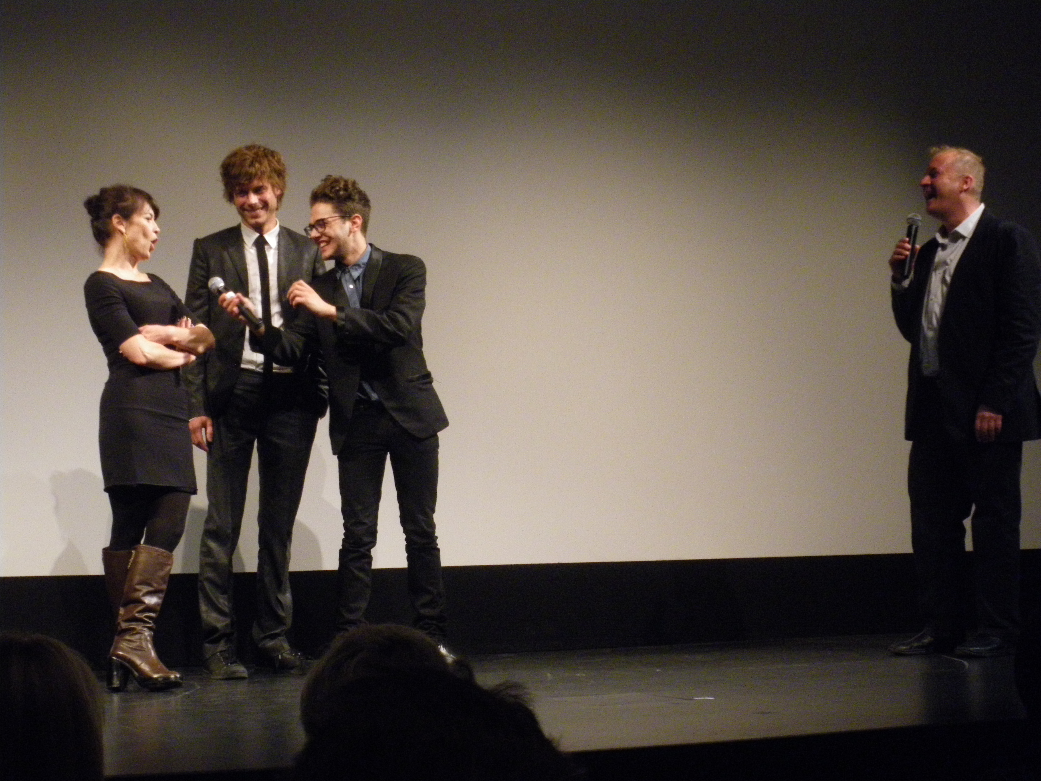 Principal cast of J'ai tué ma mère, at the Isabel Bader Theatre for the en:2009 Toronto International Film Festival. The film was subsequently included in Canada's Top Ten for the year. From left to right, Anne Dorval, François Arnaud (actor), and Xavier Dolan.